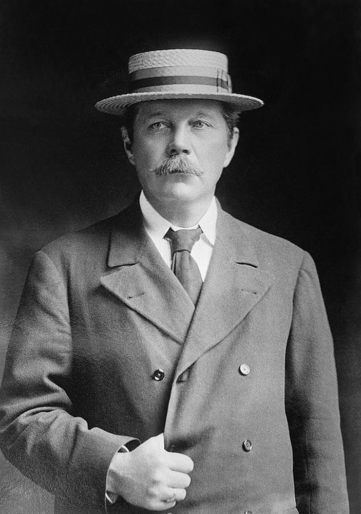 Original description from the library of congress : Bain News Service,, publisher. Conan Doyle. No date recorded on caption card. 1 negative : glass ; 5 x 7 in. or smaller. Notes: Title from unverified data provided by the Bain News Service on the negatives or caption cards. Forms part of: George Grantham Bain Collection (Library of Congress). Format: Glass negatives.